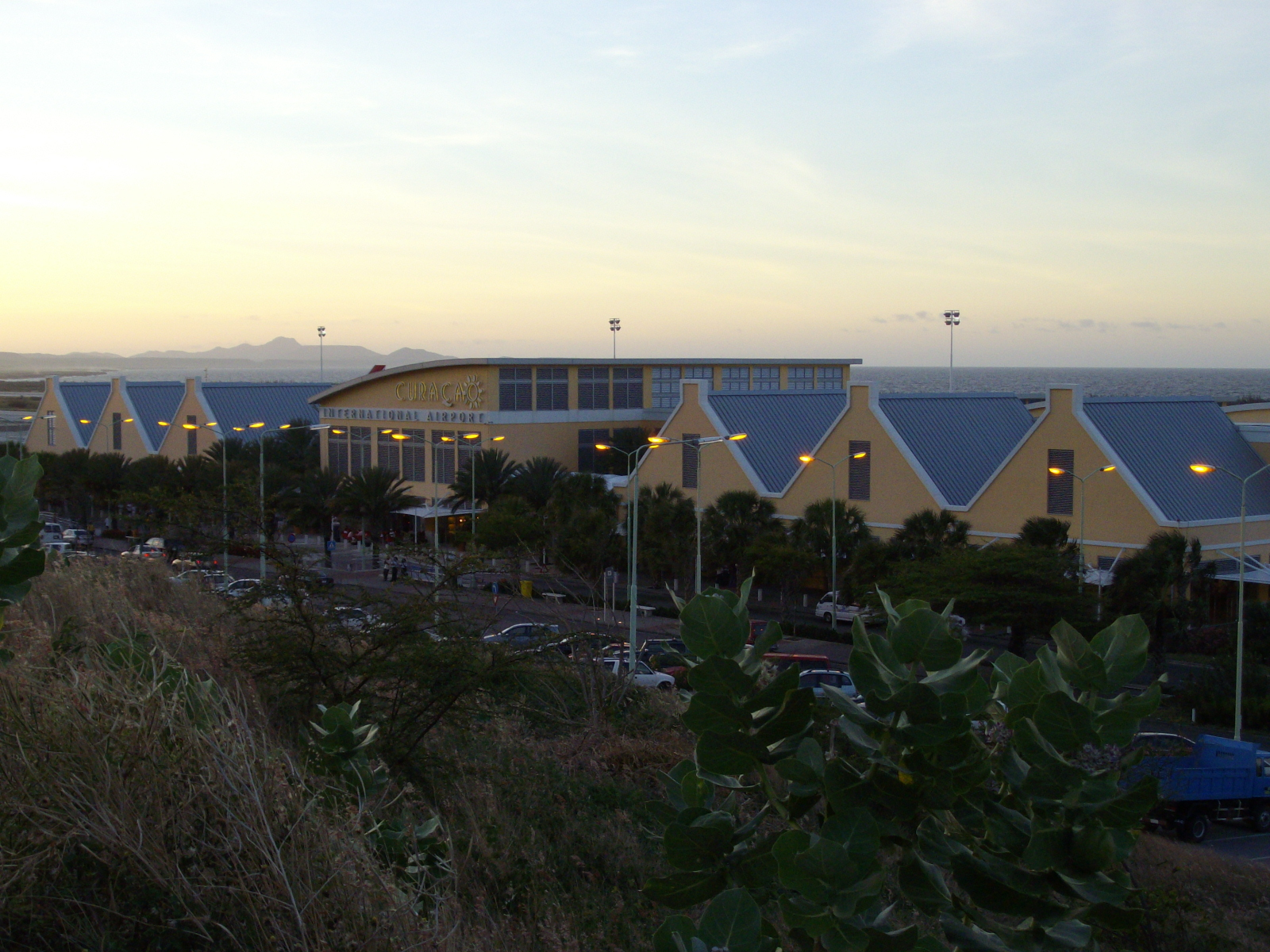 Curaçao International Airport / Hato International Airport